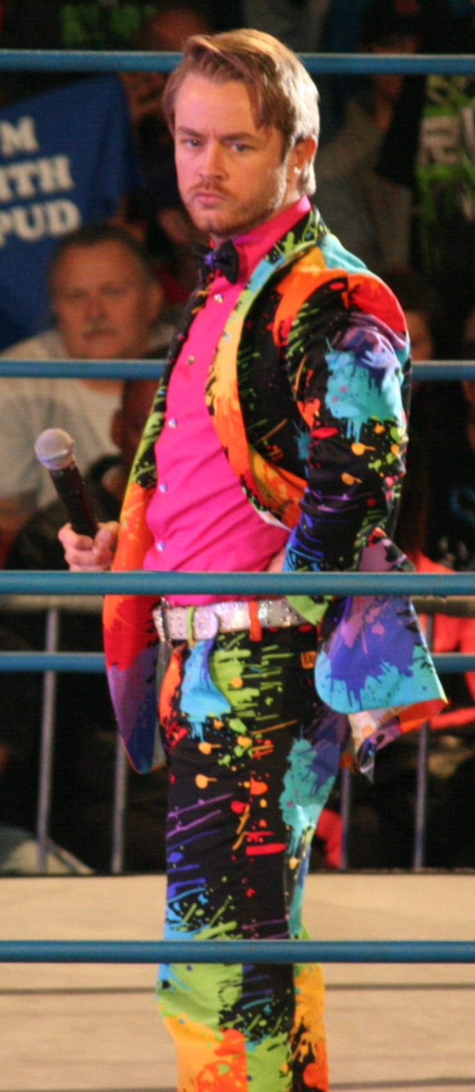 Rockstar Spud at a TNA show on April 18, 2014 in Concord, North Carolina.